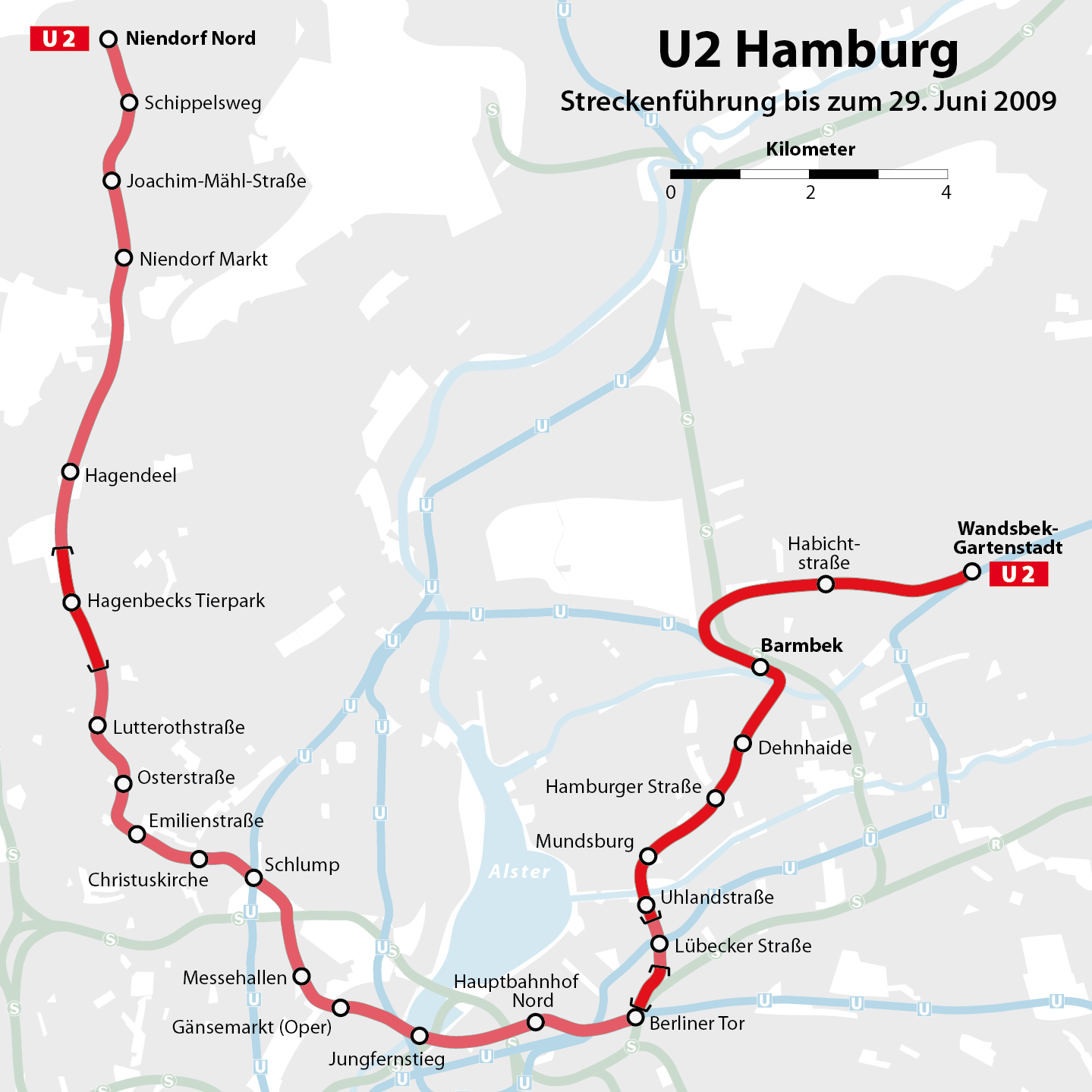 Map of Hochbahn Hamburg route U2 until 29.06.2009